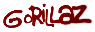 Gorillaz logo